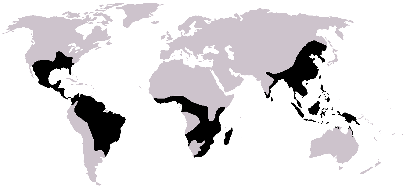 Distribution of Microhylidae based on Zug, Vitt et al. (map edited from Image:Microhylidae map.png).